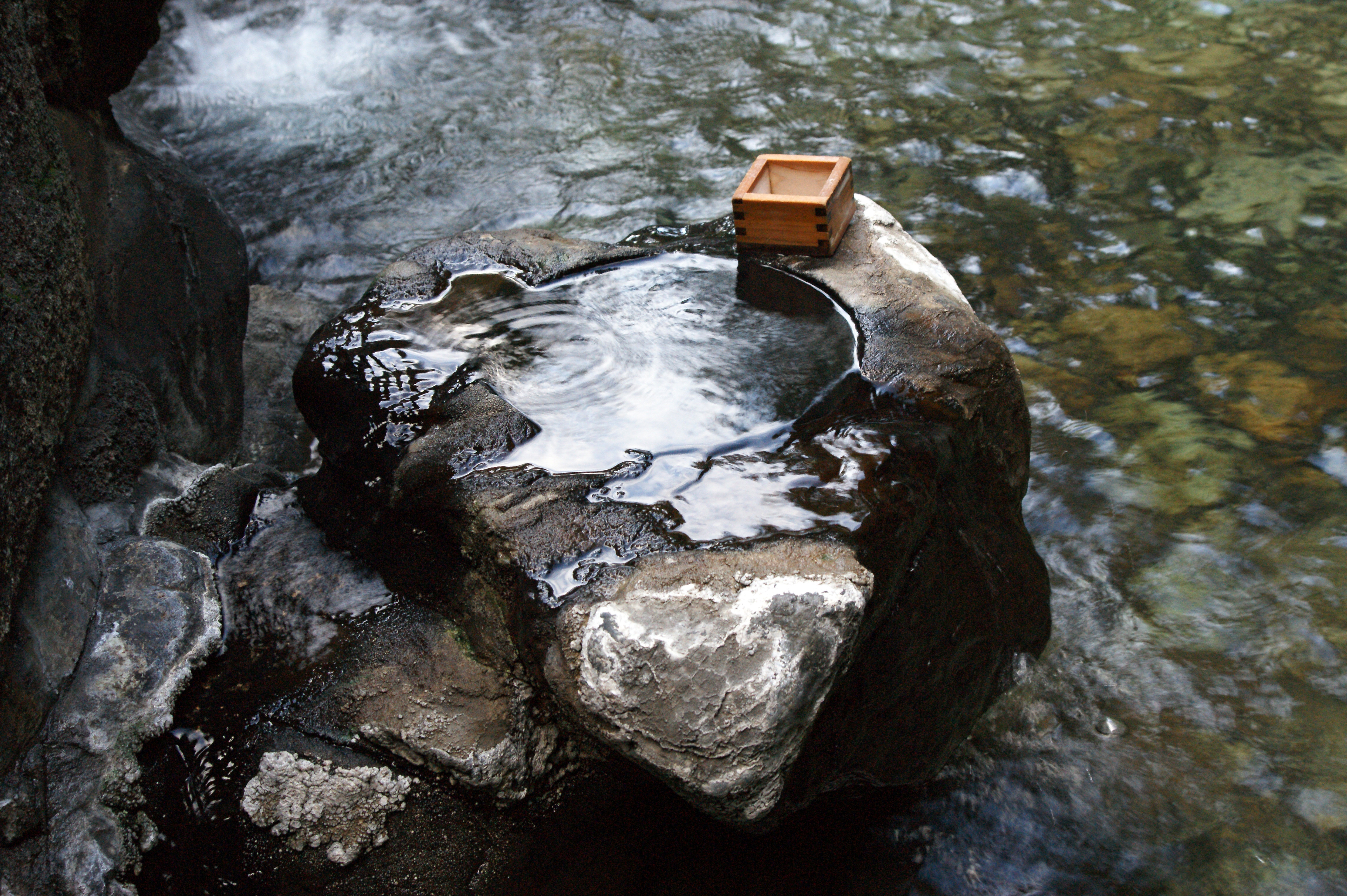 Yumura Onsen, Shinonsen, Hyogo prefecture, Japan